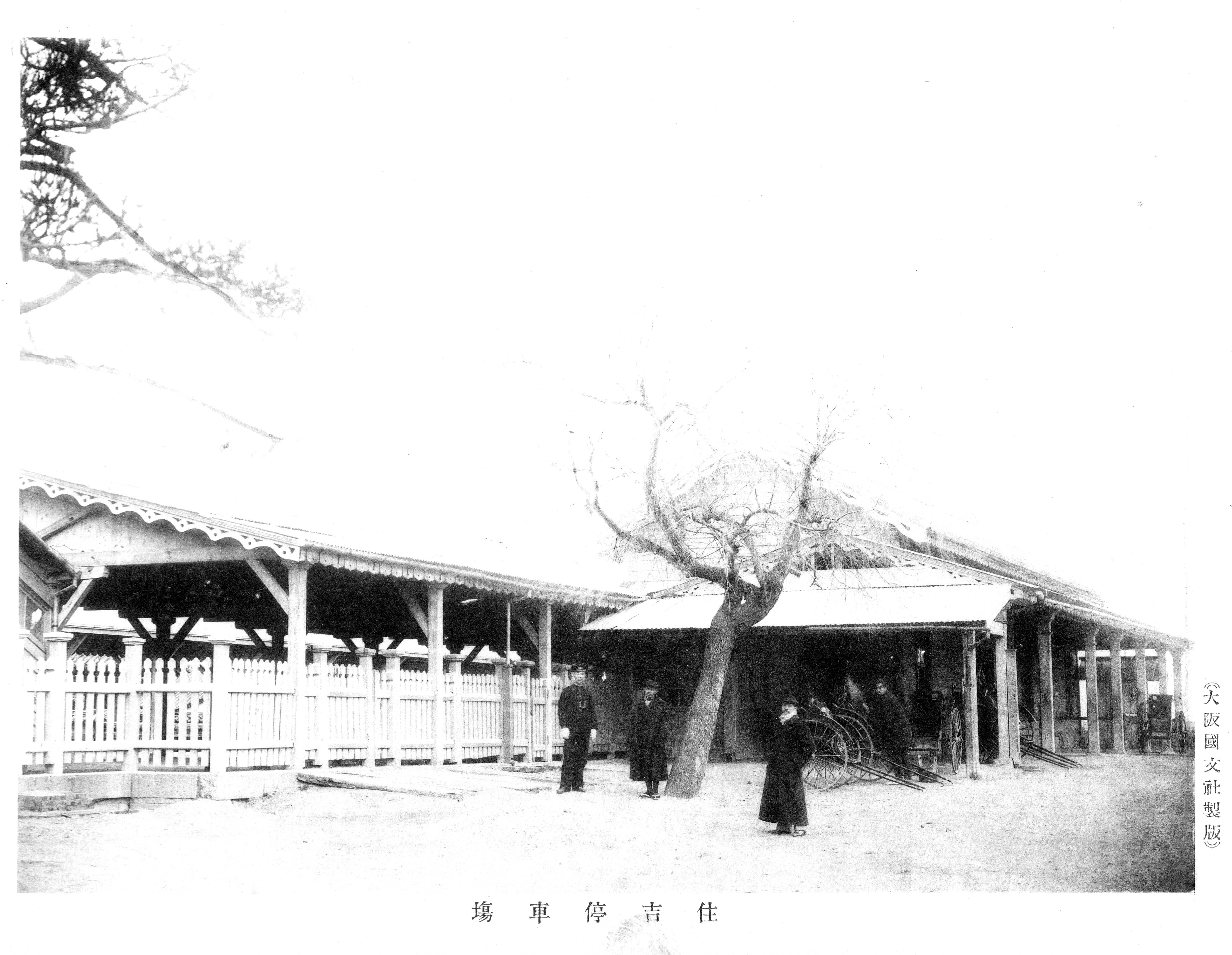 Hankai Railway (now Nankai Electric Railway) Sumiyoshi Station (opened on December 29, 1885 and closed on April 21, 1917) in Osaka